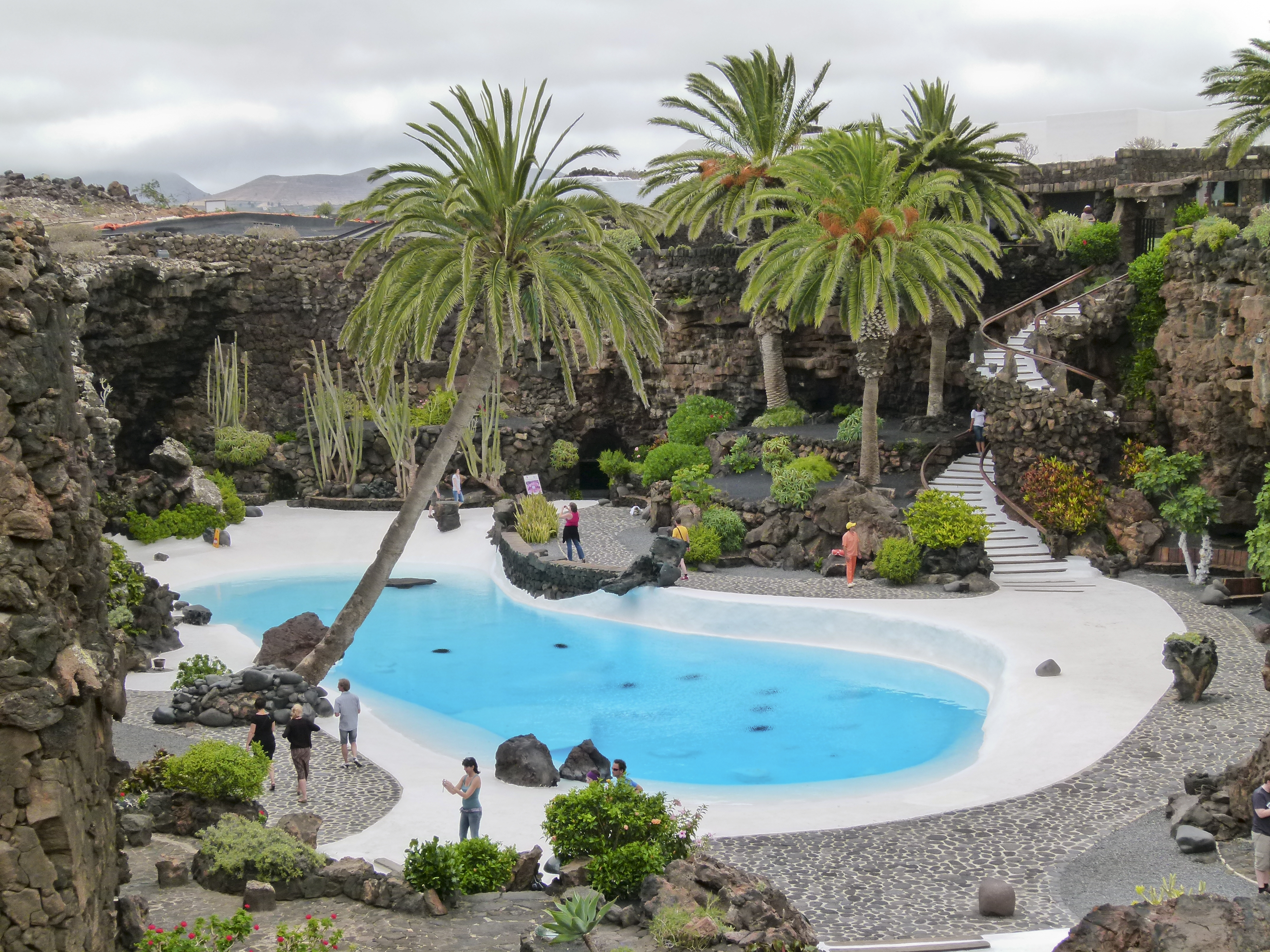 Jameos del Agua, Haria, Lanzarote, Canary Islands, Spain